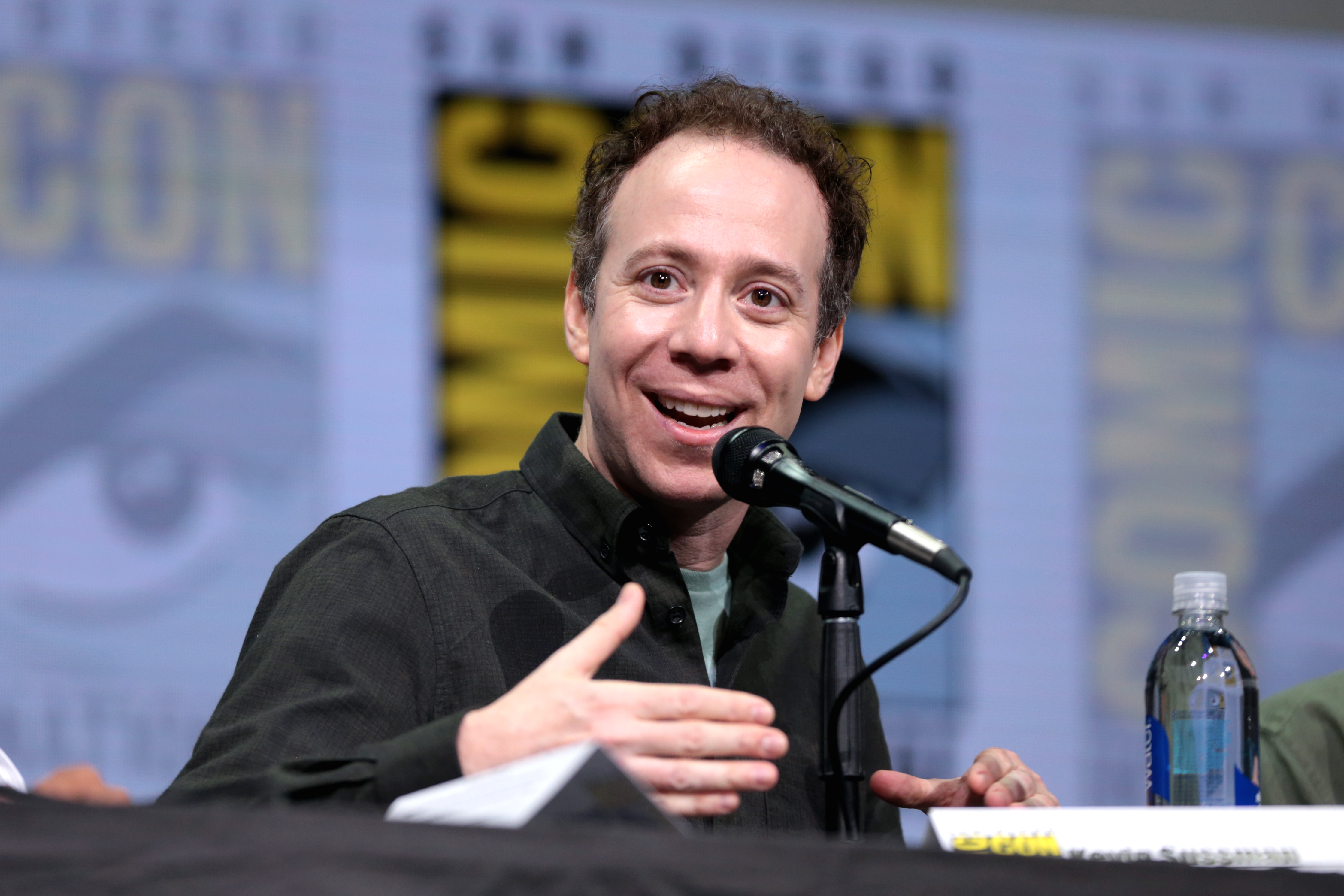 Kevin Sussman speaking at the 2017 San Diego Comic Con International, for "The Big Bang Theory", at the San Diego Convention Center in San Diego, California.